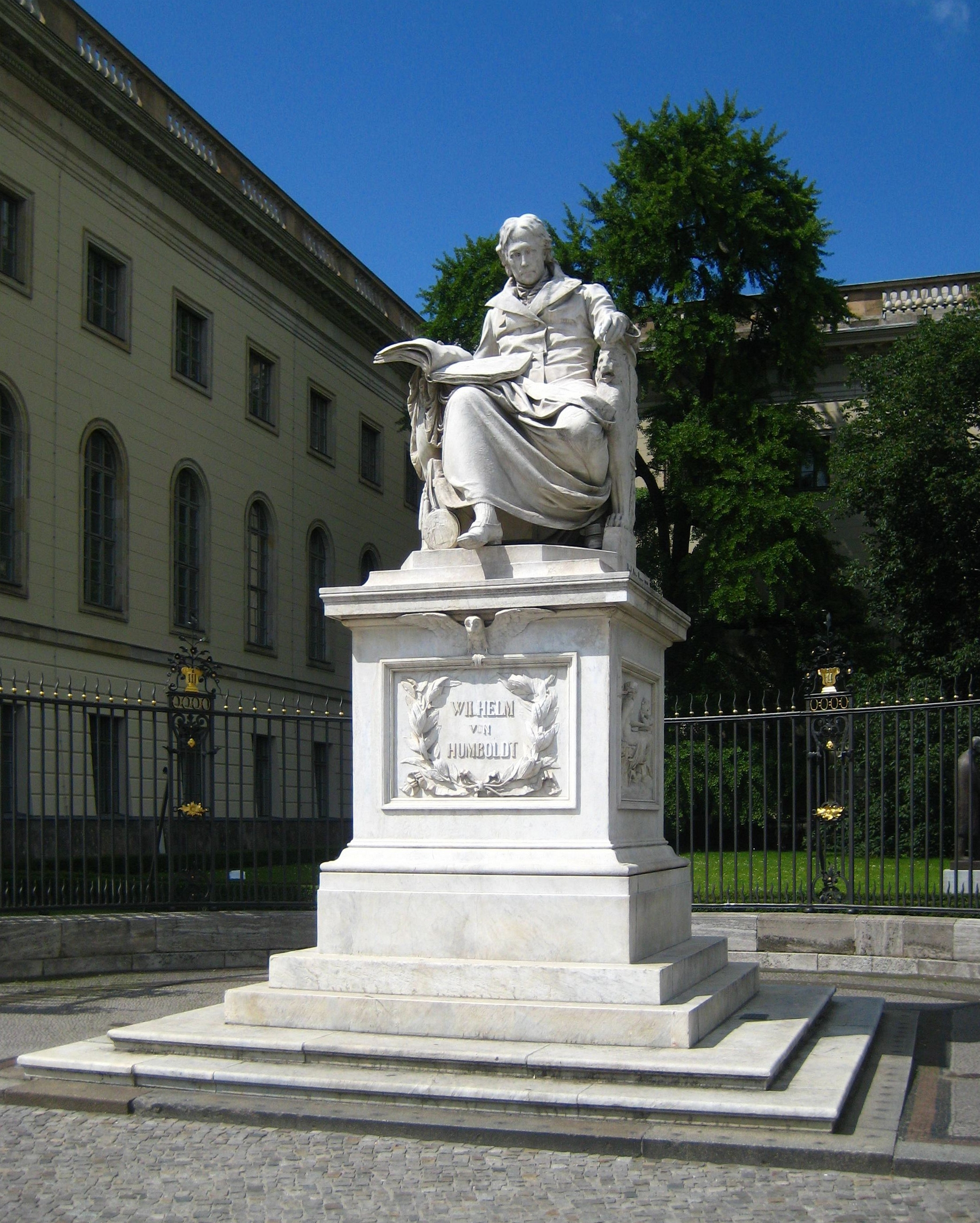 Memorial for Wilhelm von Humboldt in front of the main building of the Humboldt University in Berlin-Mitte, Unter den Linden; sculptor: Martin Paul Otto.